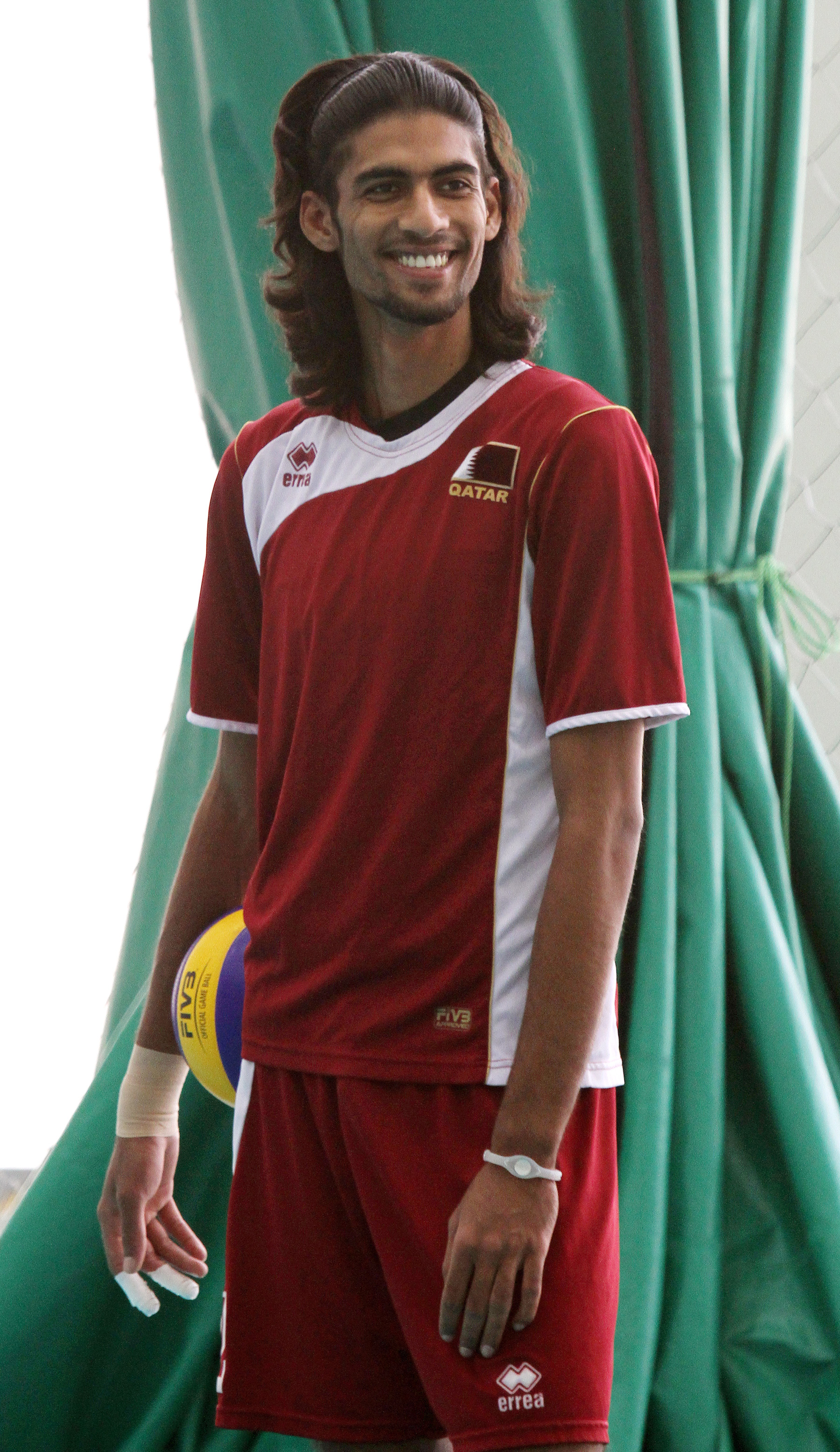 Qatar national volleyball team's Mubarak Waleed during his team's training at the Al Arabi Indoor Hall. Picture by Vinod Divakaran